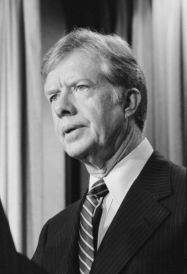 President Jimmy Carter announces new sanctions against Iran in retaliation for taking U.S. hostages